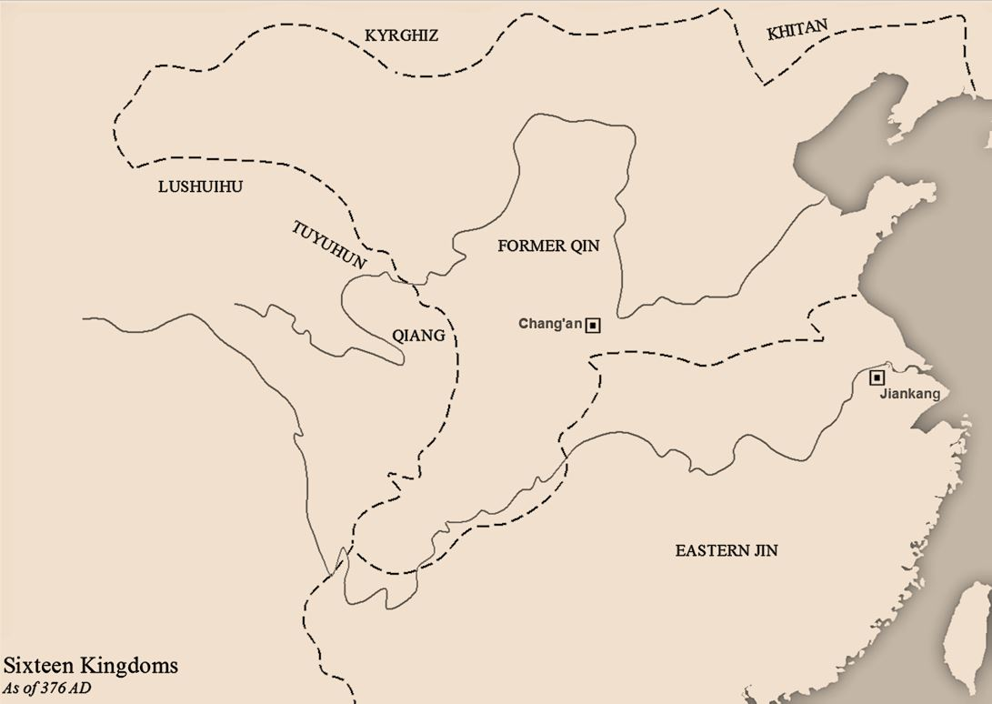 Map of Sixteen Kingdoms as of as of 376 AD before the Battle of Fei River